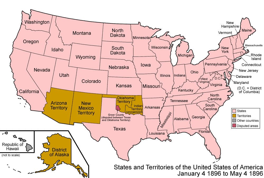 Map of the states and territories of the United States as it was from January 1896 to May 1896. On January 4 1896, Utah Territory was admitted as the state of Utah. On May 4 1896, the Greer County question was finally answered, in Oklahoma Territory's favor.